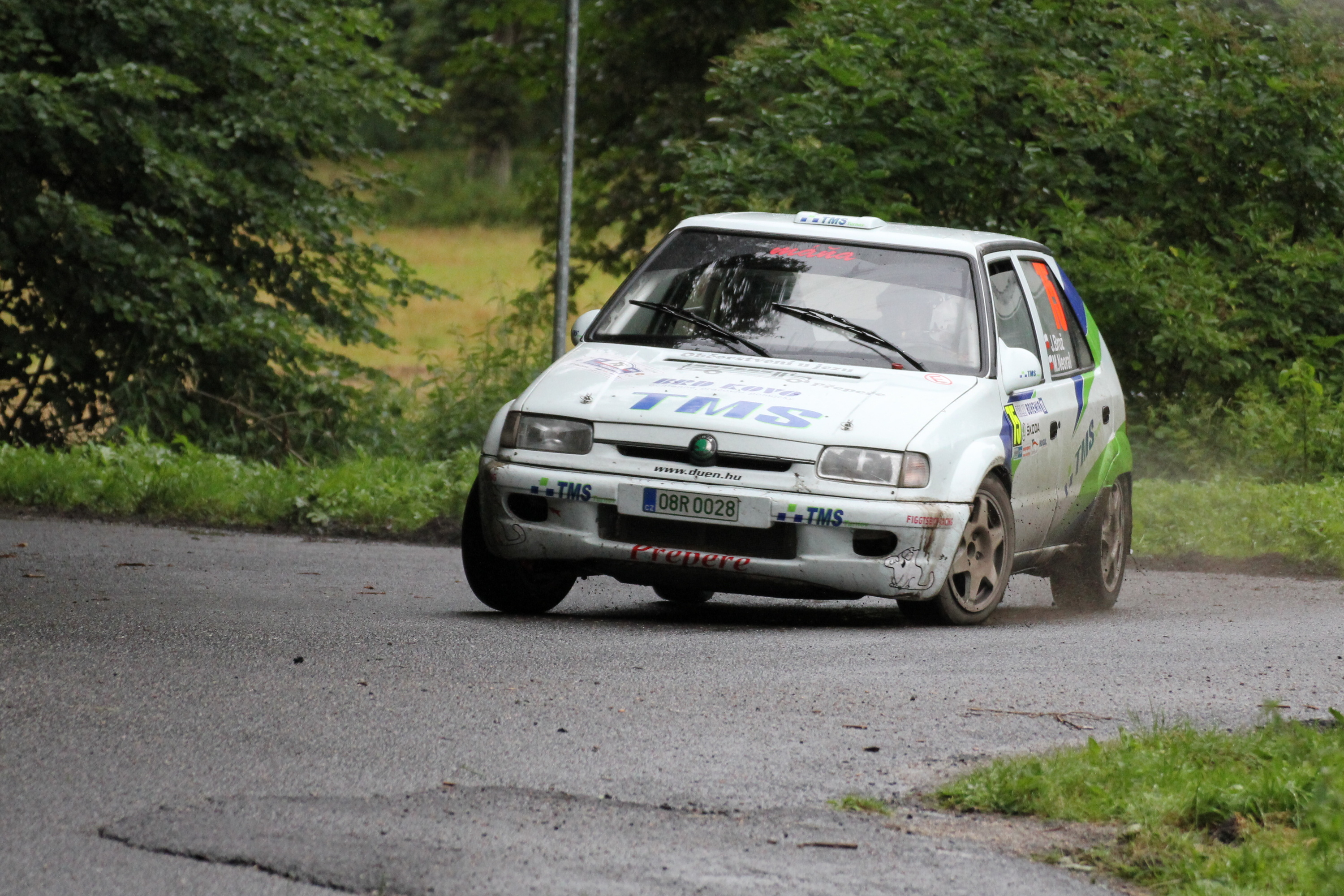 Rally Bohemia 2011 - Brož